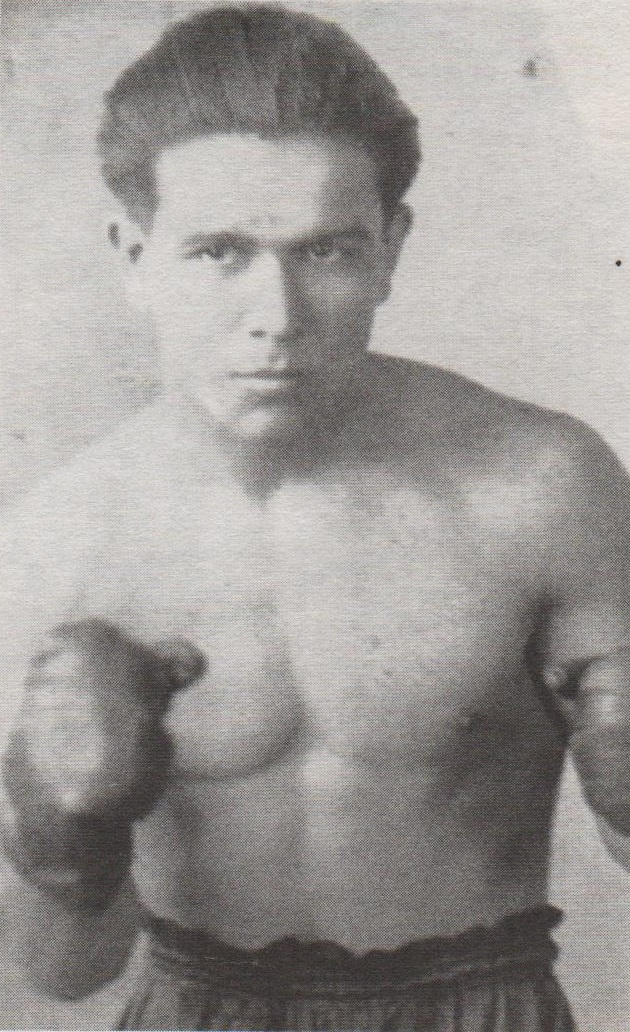 Venezuelan Boxing Champion, Hall of Famer